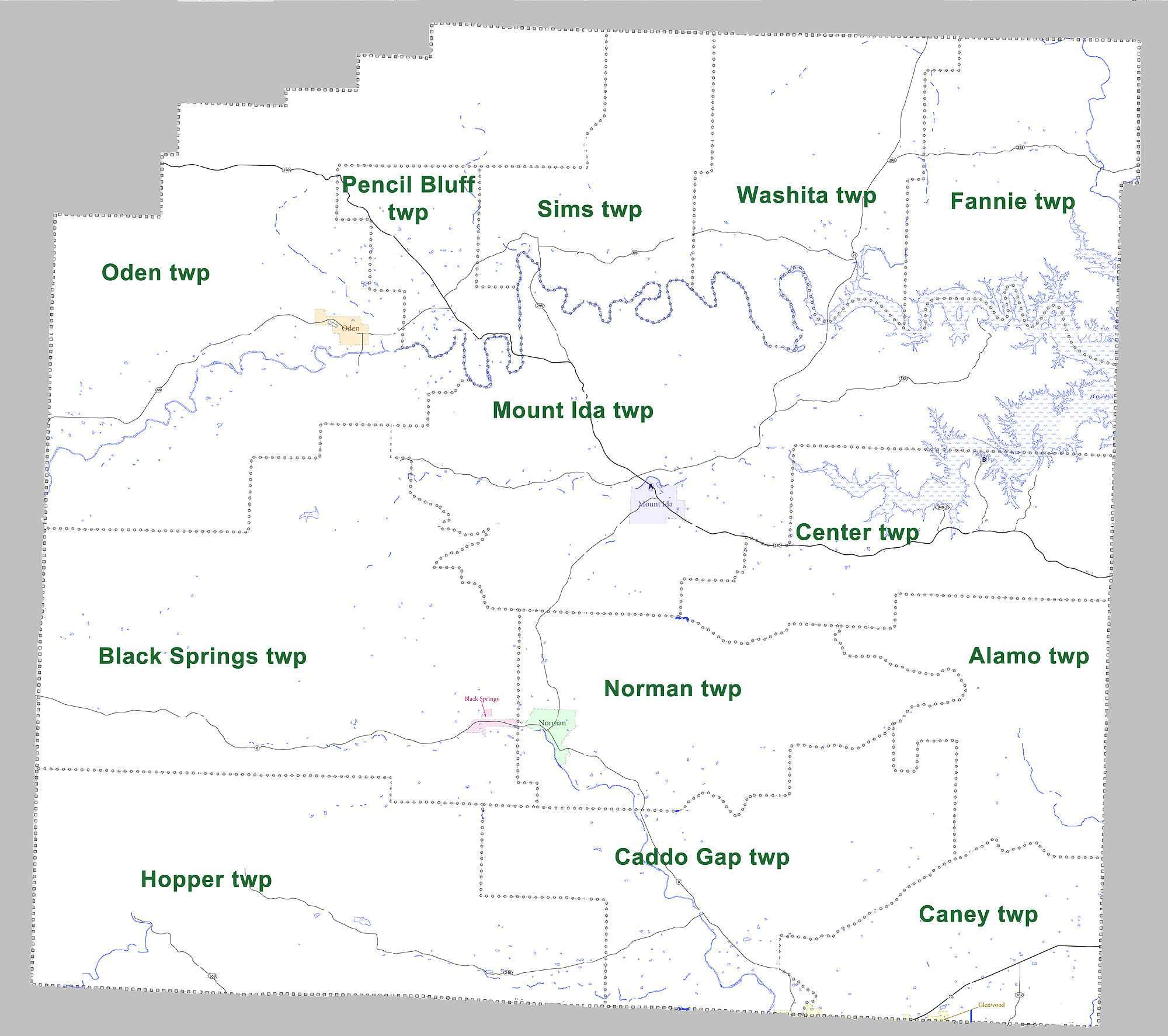 Large map showing townships in Montgomery County, Arkansas. Modified from US census map (for 2010 census) for Montgomery County, Arkansas